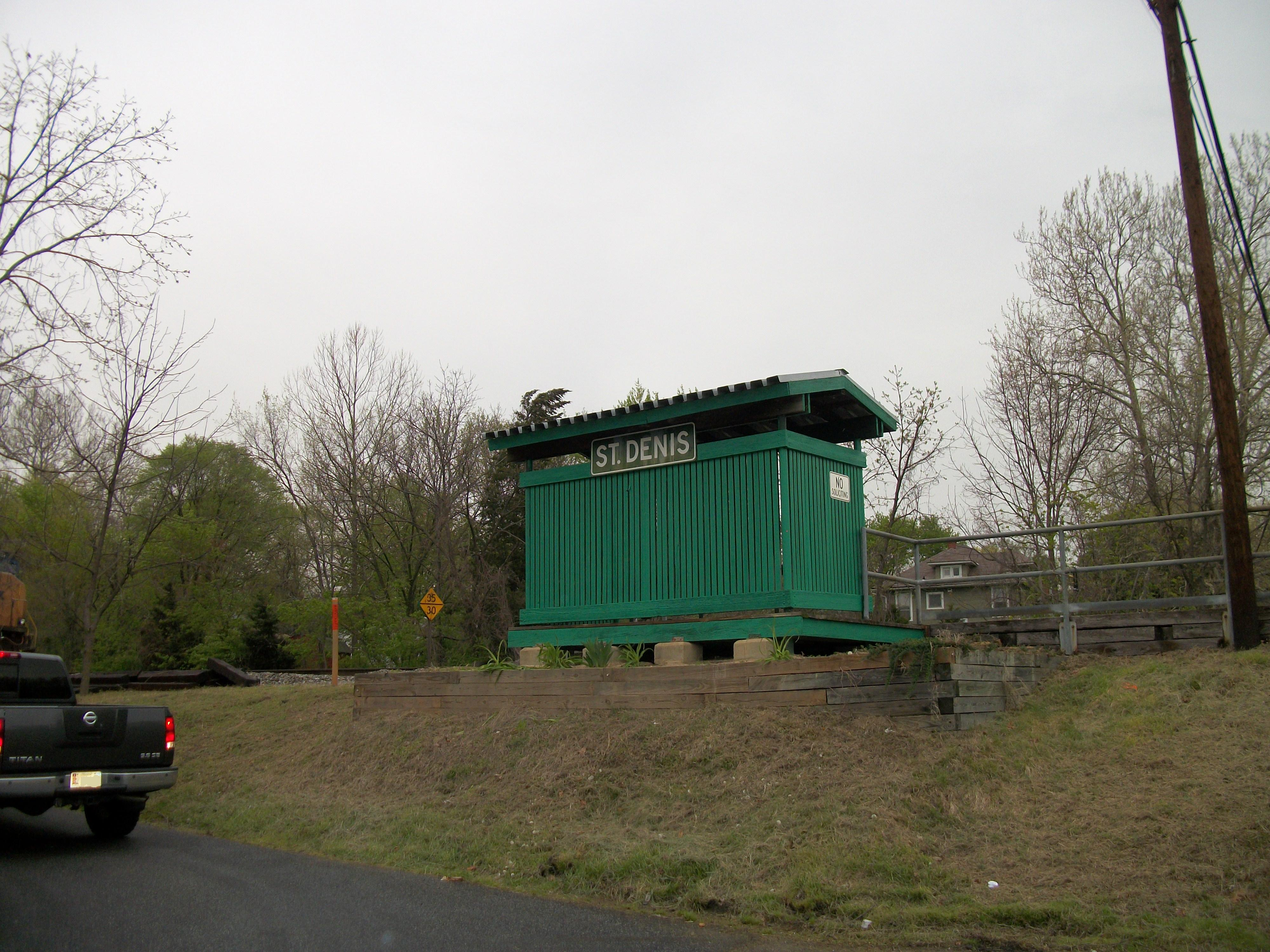 The wooden shelter of the northbound platform at St. Denis (MARC station) at the end of East Street in the St. Denis section of Halethrope, Maryland. The southbound platform on Arlington and Maple Avenues is made of plexiglas and aluminum. MARC gives the address of the station as being at 1734 Arlington Avenue, which is the plexiglas platform. The license plate of the pickup truck backing out of the owner's driveway was covered up to protect his privacy.